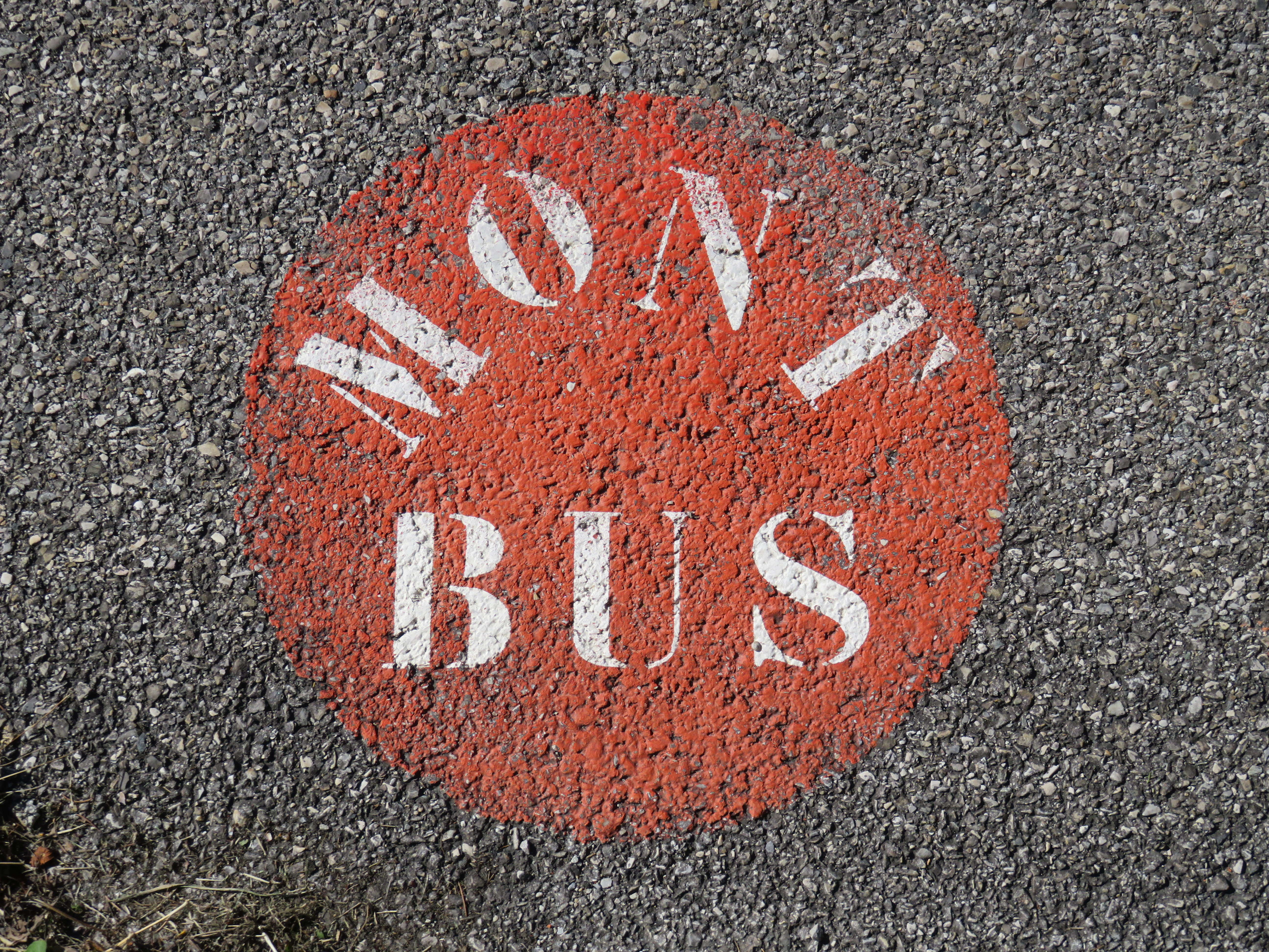 The bus stop Cimetière (Montmélian, France) on October 11, 2017.